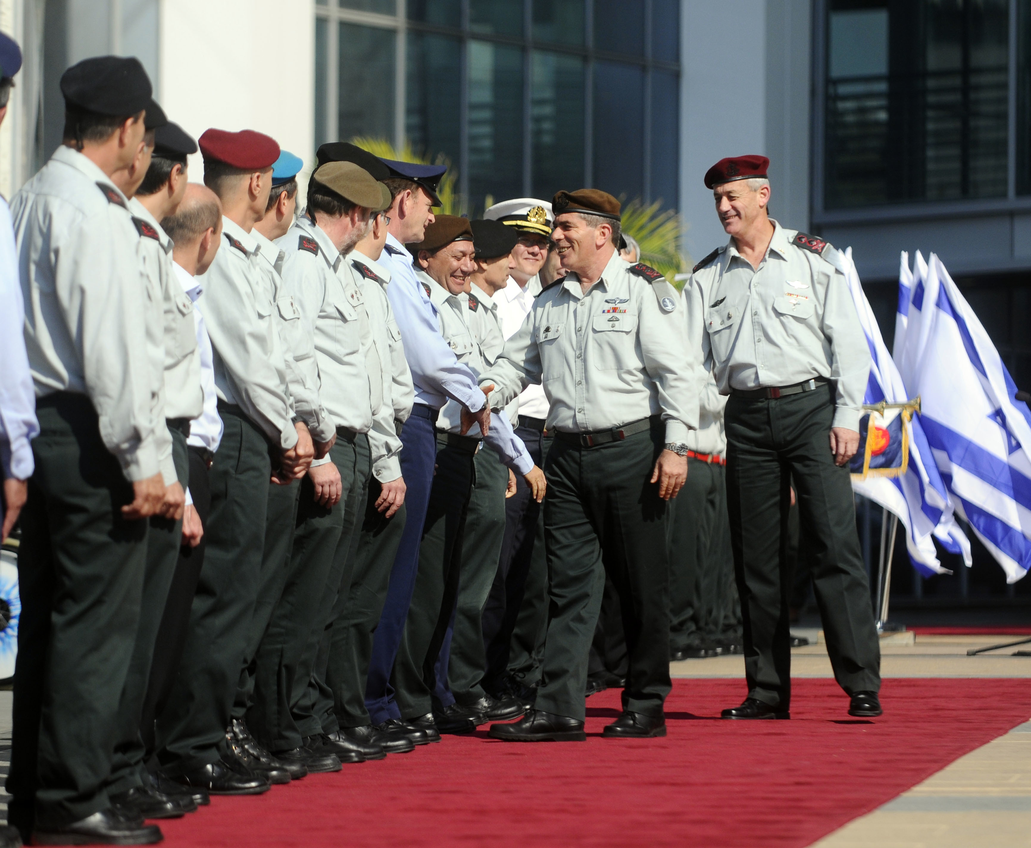 February 14, 2011. Lt. Gen. Gabi Ashkenazi receives an honor guard as his four year tenure of Chief of Staff and 40 years of service in the IDF comes to a close. The honor guard took place today at the IDF Kirya Compound Headquarters in Tel Aviv. Lt. Gen. Benny Gantz will succeed Lt. Gen. Gabi Ashkenazi as Chief of the General Staff.